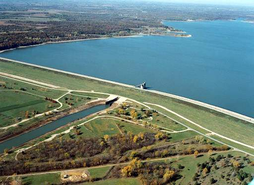 Aerial view of the dam at Perry Lake, Kansas